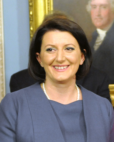 President of Kosovo Atifete Jahjaga during the signing of the U.S.-Kosovo Agreement on the Protection and Preservation of Certain Cultural Properties, at the U.S. Department of State in Washington, D.C., on December 14, 2011.